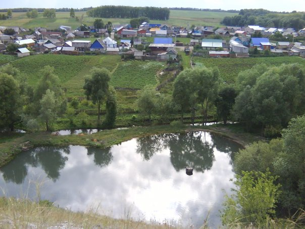 Pond on the Sedyak river beside village Sedyakbash.